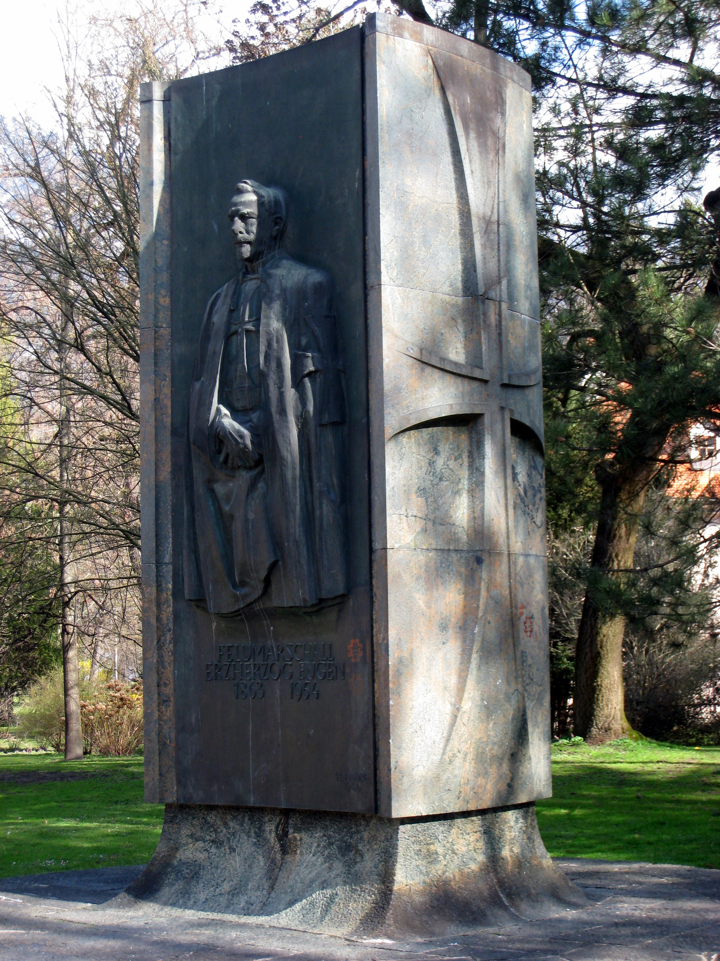 Innsbruck, Austria - memorial to Archduke Eugen of Austria (1863-1954). This media shows the remarkable cultural object in the Austrian state of Tyrol listed by the Tyrolean Art Cadastre with the ID 116168. (on tirisMaps, pdf, more images on Commons, Wikidata)